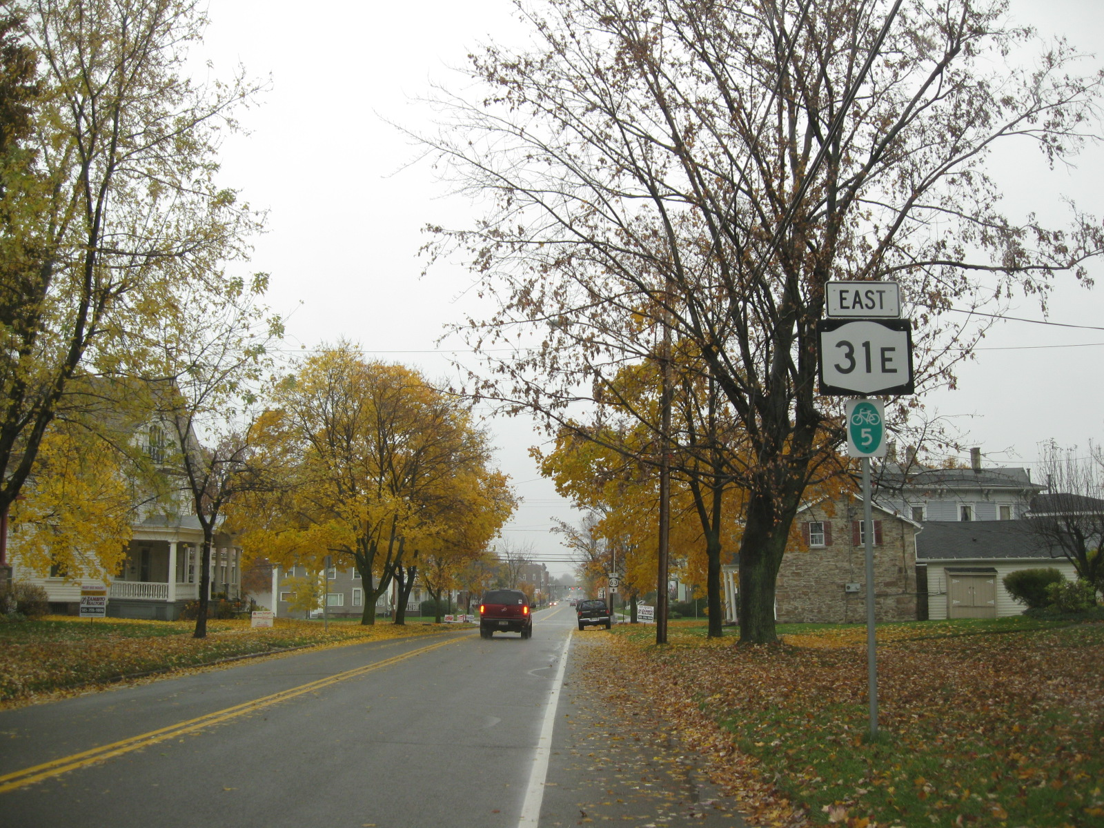 New York State Route 31E heading eastbound through in Medina, New York. Signage for New York State Route 63 is visible in the background.